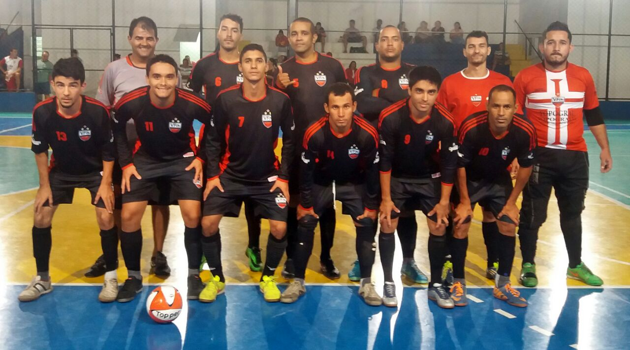 Vilense in the regional championship of Igaratinga.